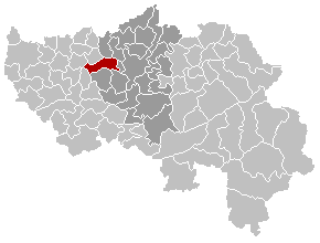 Map, municipality belgium Grâce-Hollogne